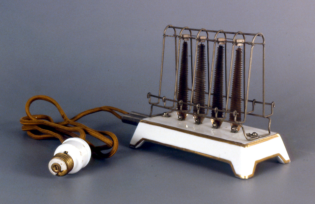 See Talk:Mains power plug for copyright information. Extract from Mains power plug: “When electricity was first introduced into the domestic environment, it was primarily for lighting. However, as it became a viable alternative to other means of heating and also the development of labour-saving appliances, a means of connection to the supply other than via a light socket was required. In the 1920s, the two-prong plug made its appearance. “At that time, some electricity companies operated a split-tariff system where the cost of electricity for lighting was lower than that for other purposes, which led to low-wattage appliances (e.g. vacuum cleaners, hair driers, etc.) being connected to the light fitting. The picture below shows a 1909 electric toaster with a lightbulb socket plug. As the need for safer installations grew, earthed three-pin outlets were developed.”